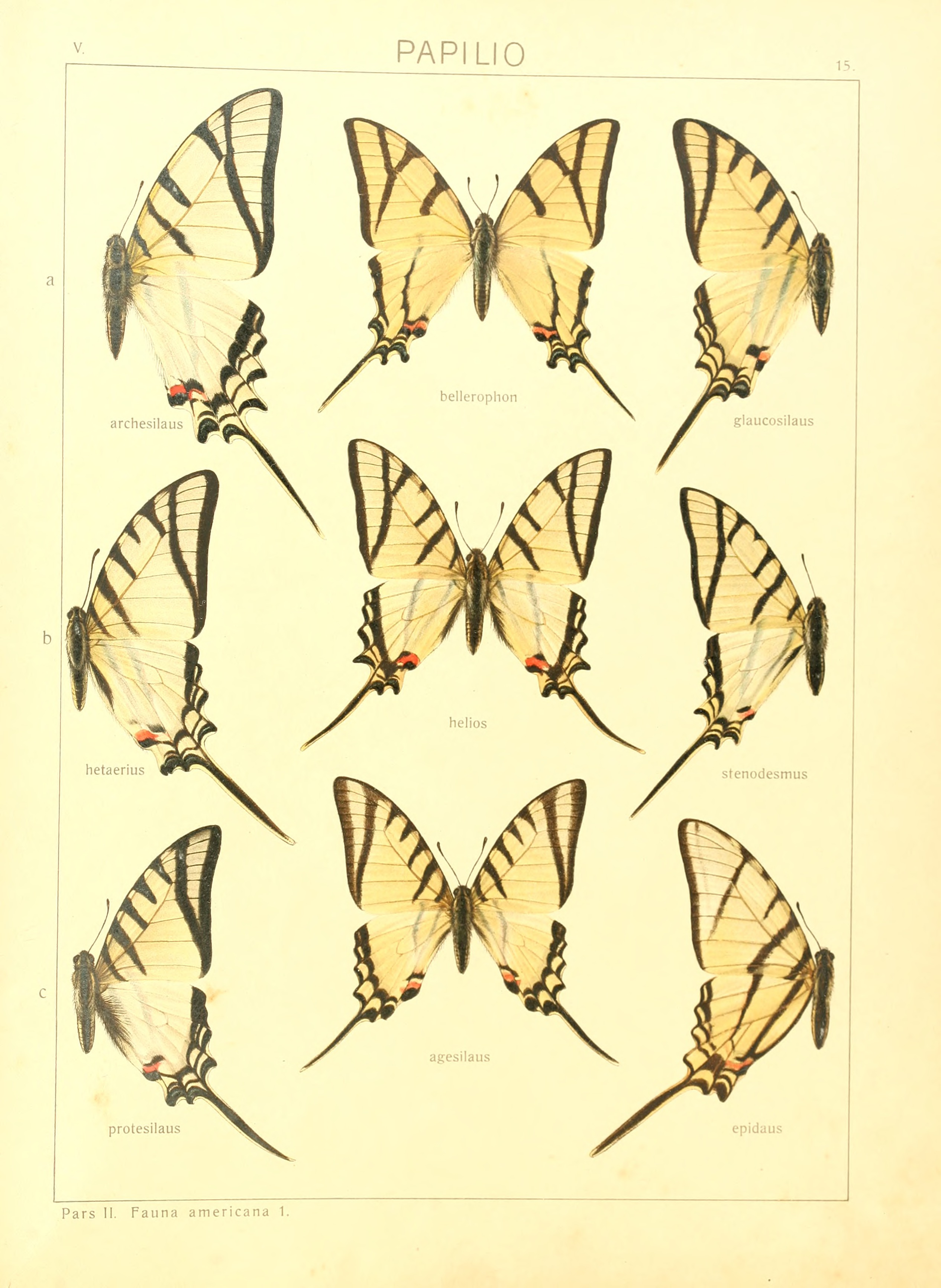 a.3.: Bates' Swallowtail, upperwing b. Papilio molops hetaerius R. & J. = Protesilaus molops hetaerius (Rothschild & Jordan, 1906), upperwing Papilio helios R. & J. = Protesilaus helios (Rothschild & Jordan, 1906), upperwing Papilio stenodesmus R. & J. = Protesilaus stenodesmus (Rothschild & Jordan, 1906), upperwing c. Papilio protesilaus protesilaus L. = Protesilaus protesilaus protesilaus (Linnaeus, 1758), upperwing Papilio agesilaus agesilaus Guér. = Protographium agesilaus agesilaus (Guérin-Méneville & Percheron, 1835), upperwing Papilio epidaus epidaus Doubl. = Protographium epidaus epidaus (Doubleday, 1846), upperwing